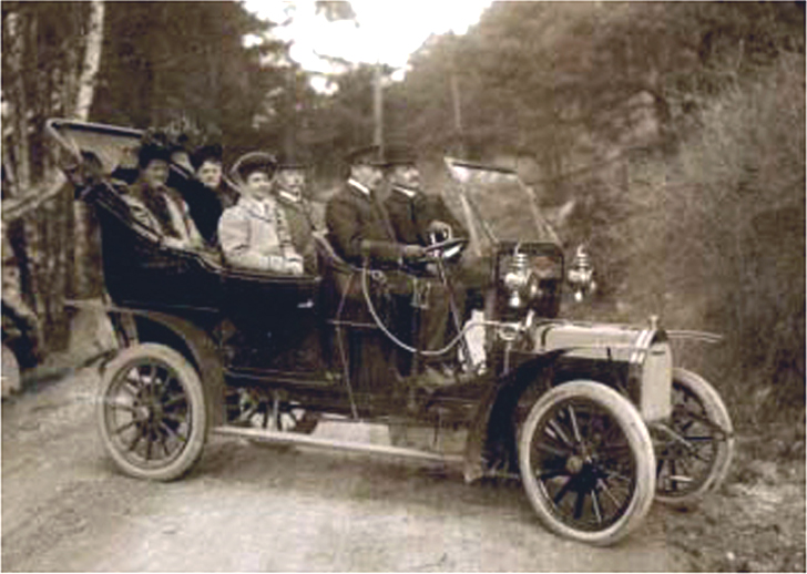 Old bus from Norway. The first norwegian bus (not the oldest). UNIC (France) 1907. Chassis build in Kristiania, Norway (= Oslo).